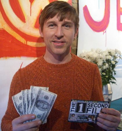 Todd Oldham holding five $20 bills and a producer credit for The 1 Second Film